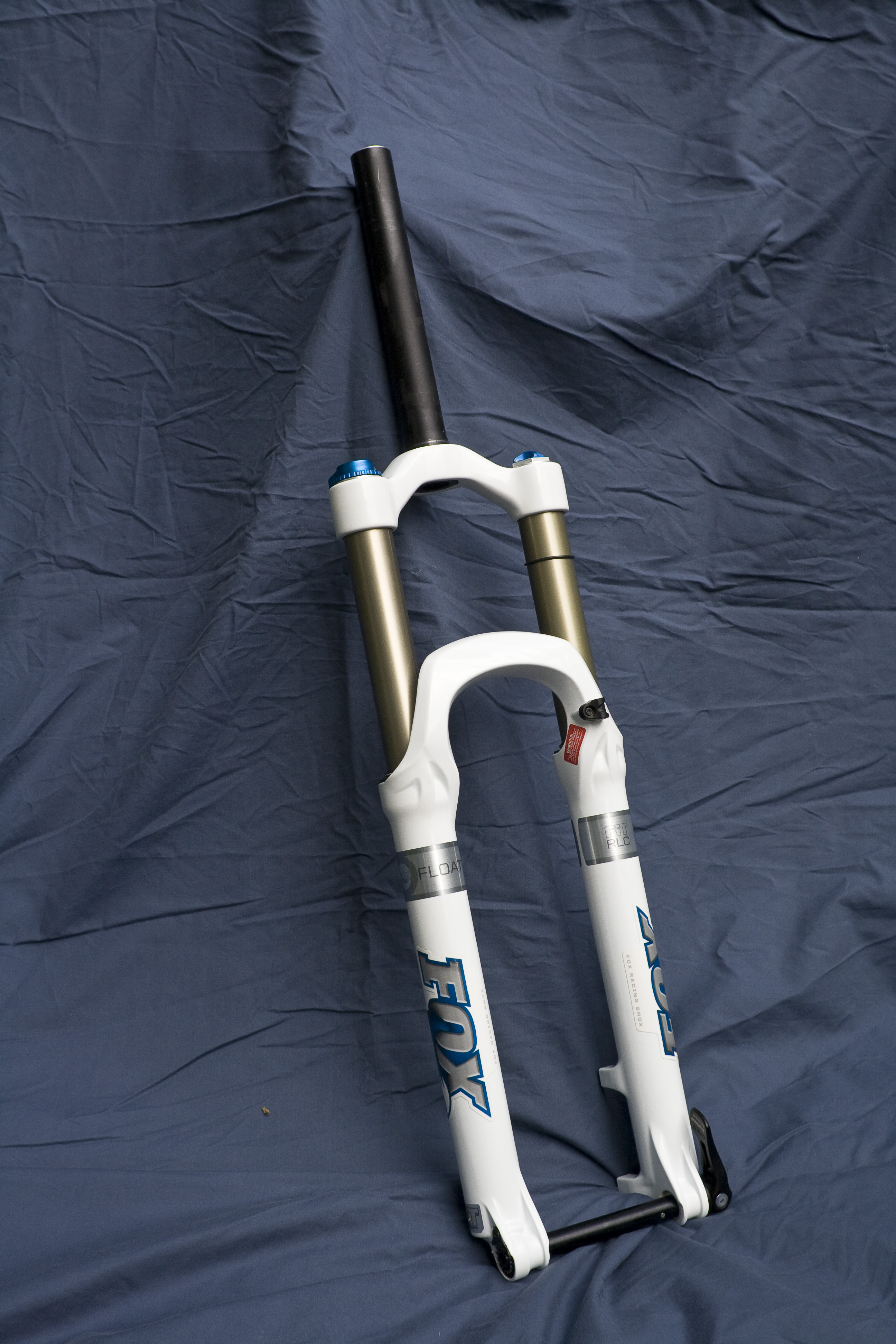 2010 Fox Float RLC 150 Bike Suspension Fork